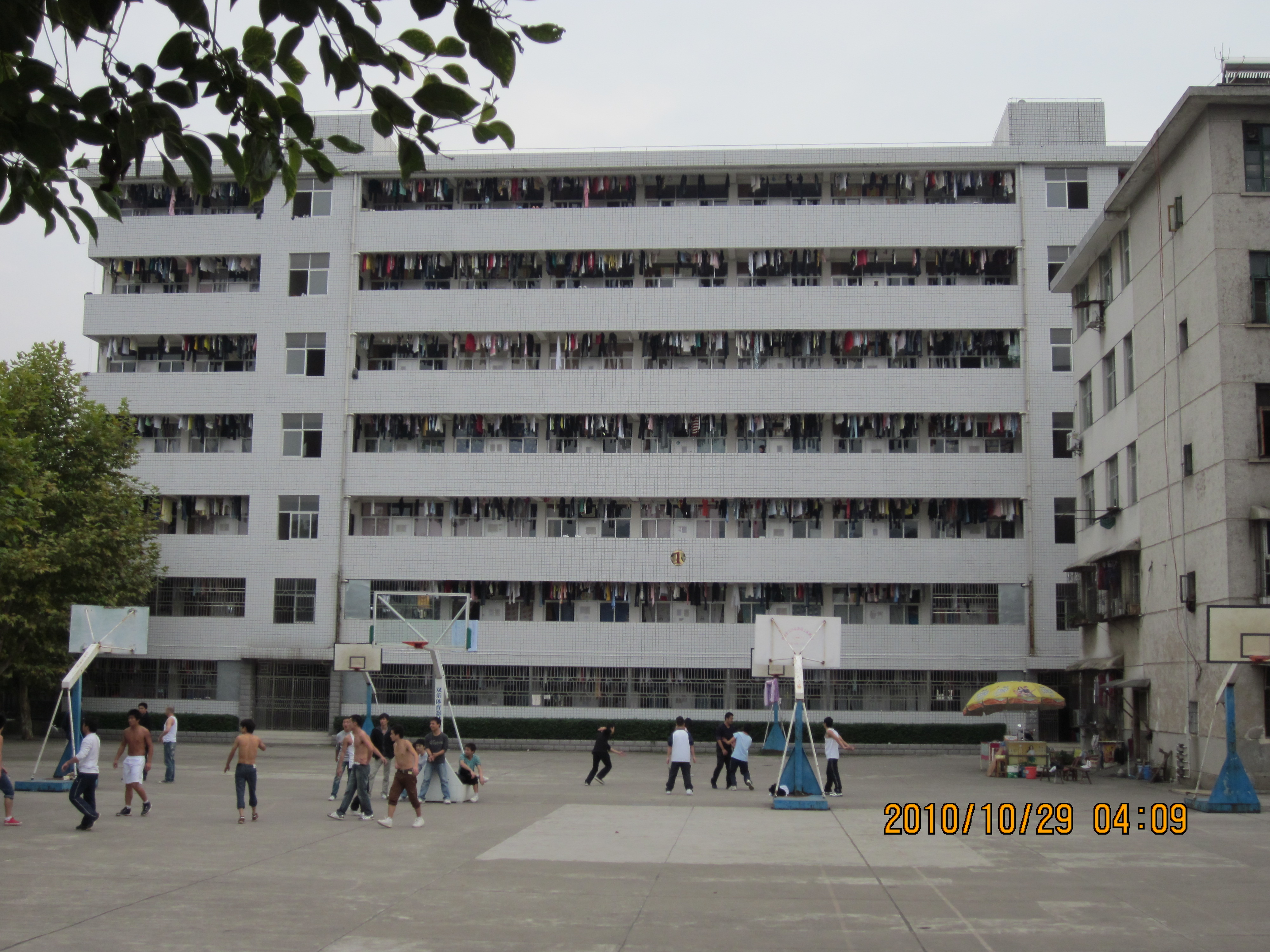 Zhangjiajie Institute of Aeronautical Engineering